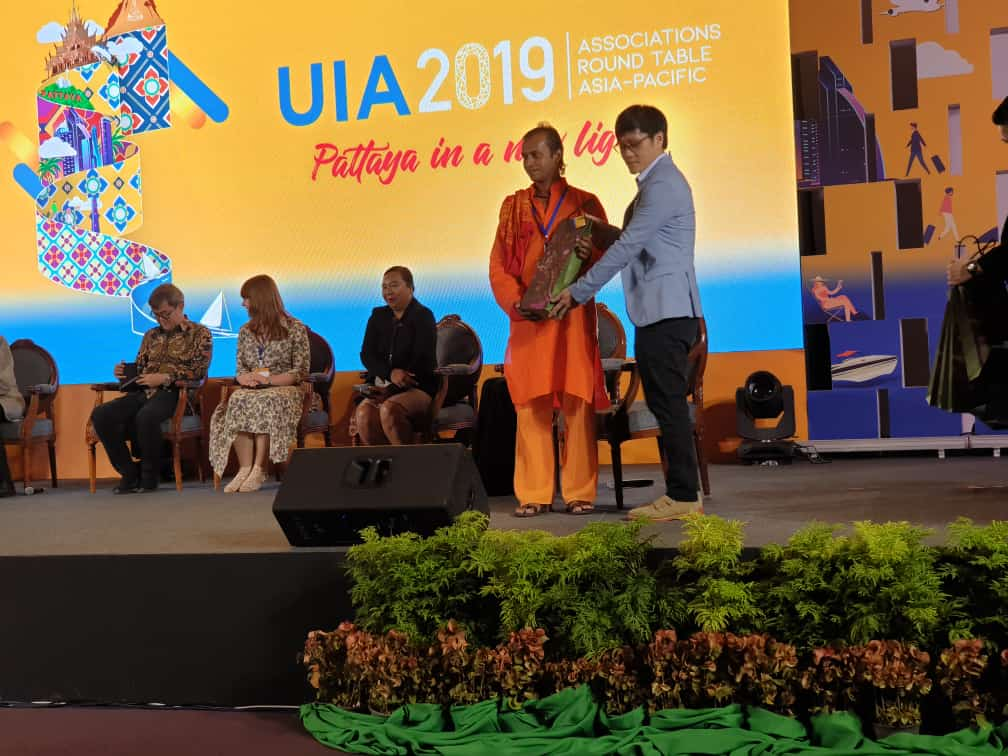 Guruji Murugan Chillayah onbehalf of World Yoga Association, was honored as Speaker by UIA-TCEB at Royal Grand Cliff, Pattaya Thailand during Round Table September 2019 (Convention & Exhibition). Presented by TCEB Conventions Department Director Mr. Sutichai Bunditvorapoom.